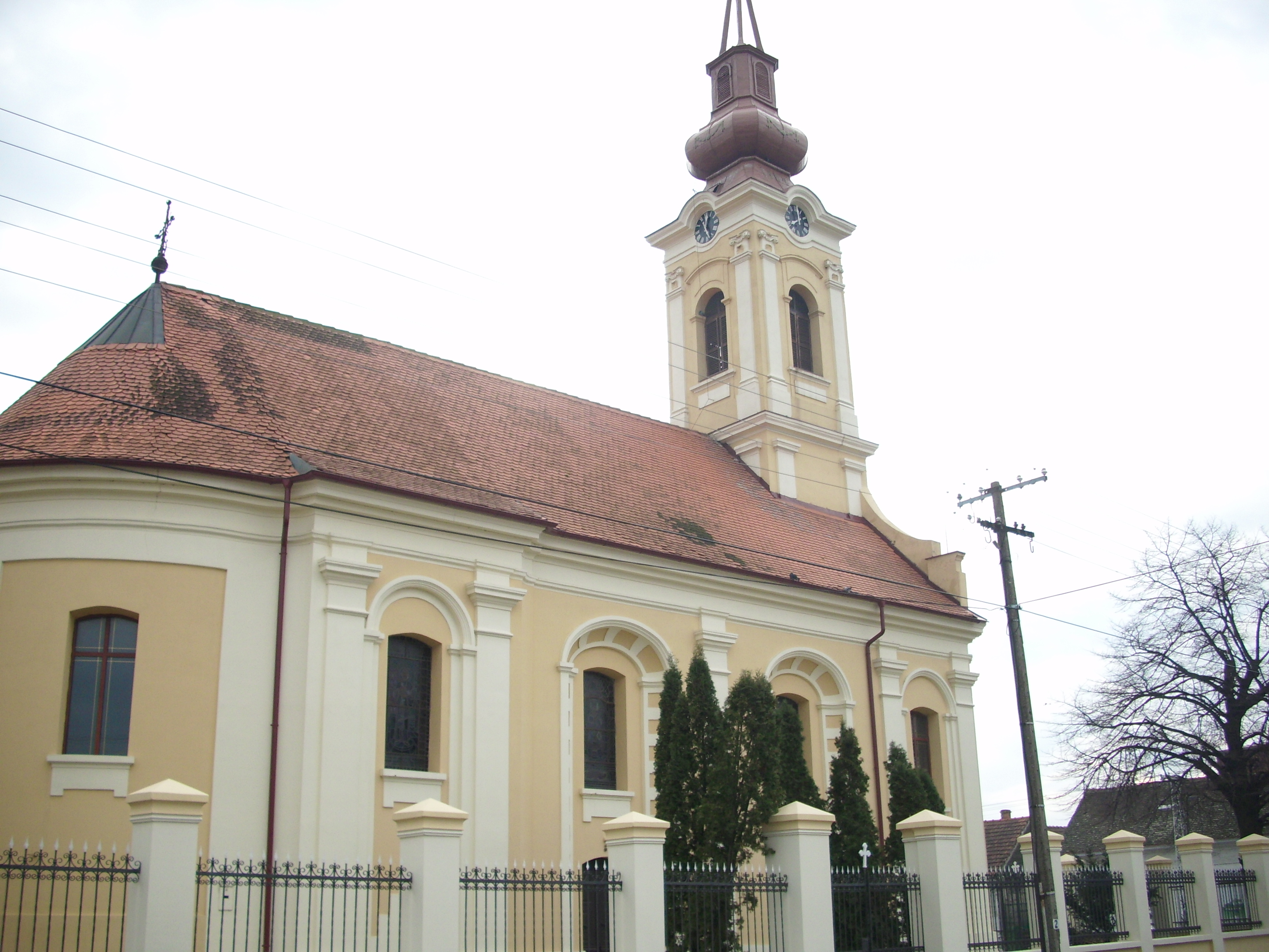 Orthodox church of Saint Prophet Elijah